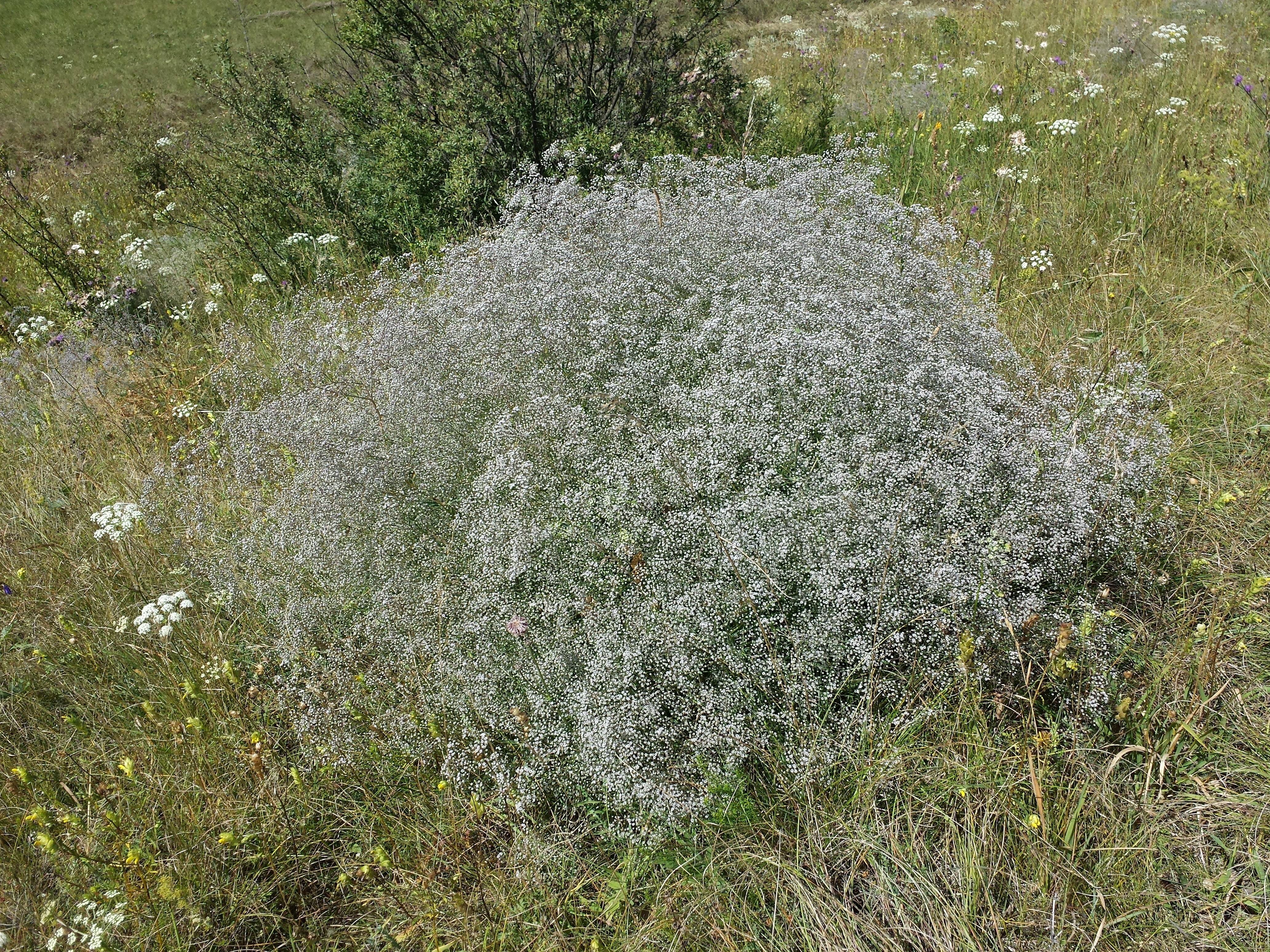 Habitus Taxon: Gypsophila paniculata (sensu Fischer et al. EfÖLS 2008) Location: nature reserve Sandberge Oberweiden, district Gänserndorf, Lower Austria - ca. 160 m a.s.l. Habitat: sand steppe